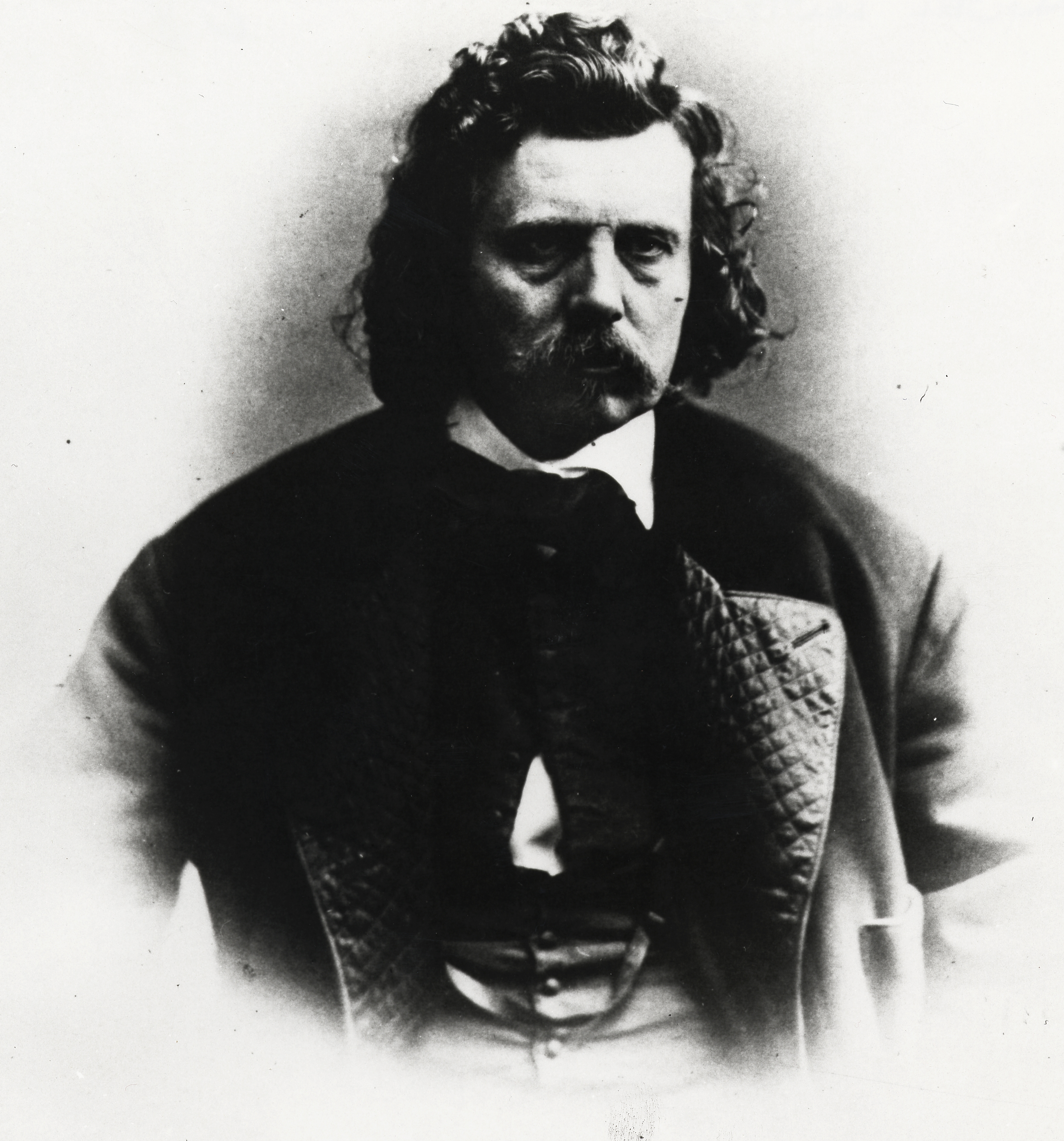 A circa 1870 photograph of Emanuel Leutze, a German-born American painter. Copyprint of a photograph of Leutze originally taken by John D. Shiff.